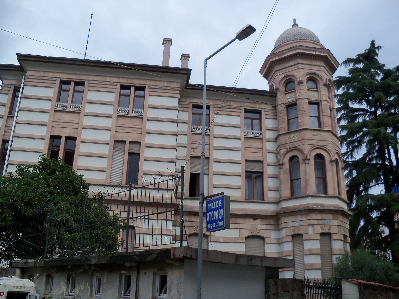 The Museum of Trabzon, Turkey, in the former mansion of Kostaki.